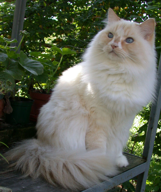 "A picture of Amarillo of First Europe, an European Ragamuffin."